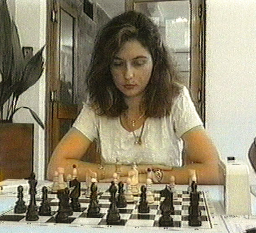 This photo shows chess grandmaster Alisa Maric while playing on chess tournament. It was taken by Josip Asik in Becici (Yugoslavia, now Montenegro), in 1997, during Yugoslav Team Cup competition. Originally it was taken by VHS camcorder and than derived from tape as a screen capture file. That's way, it's low resolution file. It should be used in Alisa Maric article.